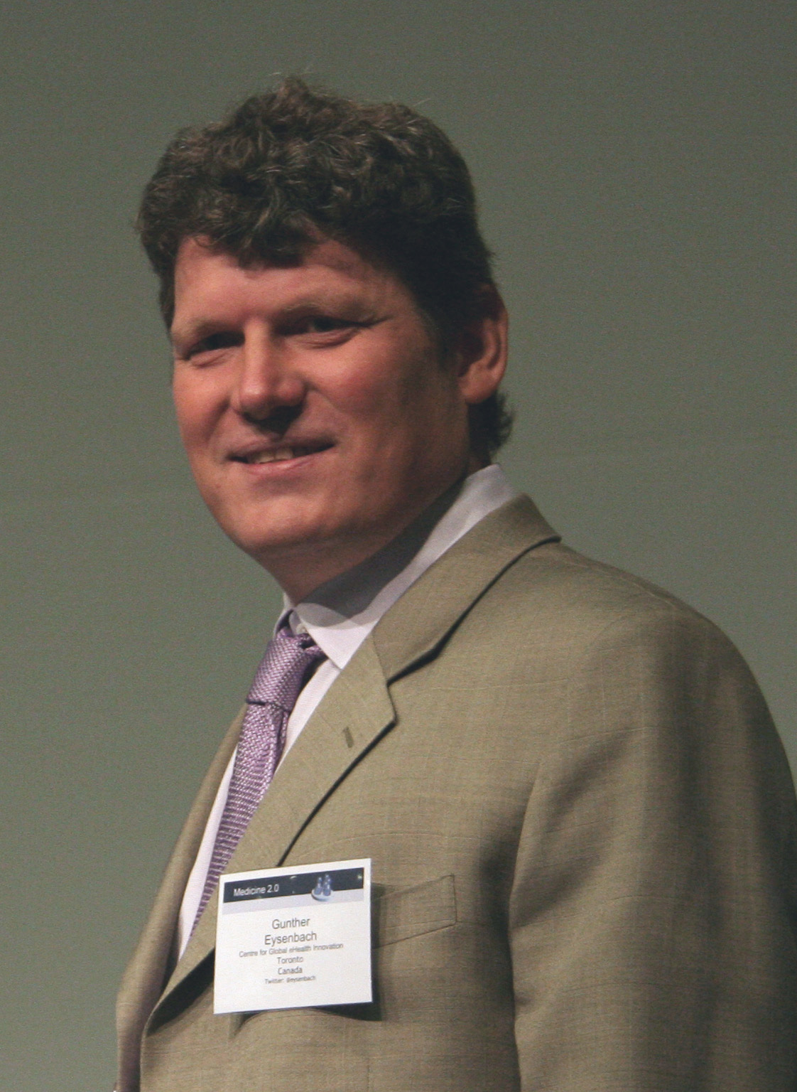 Gunther Eysenbach MD MPH, founder and producer of the Medicine 2.0 conference series, and chair/director of the Medicine 2.0'09 congress in Toronto